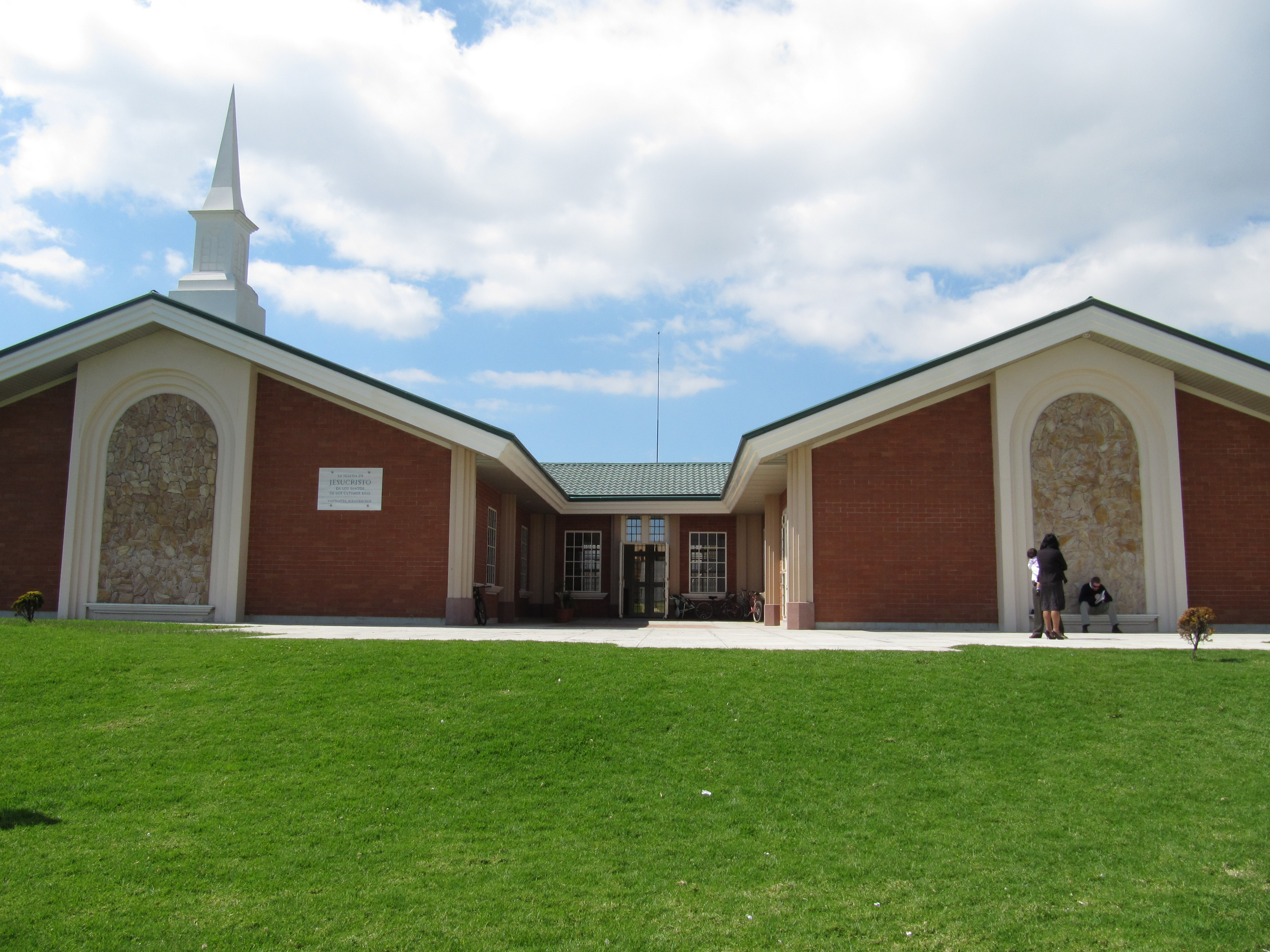 A view of a meetinghouse of The Church of Jesus Christ of Latter-day Saint in Guatemala.